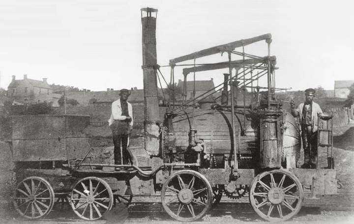 Steam locomotive Puffing Billy shortly before it was handed over to the museum in 1862